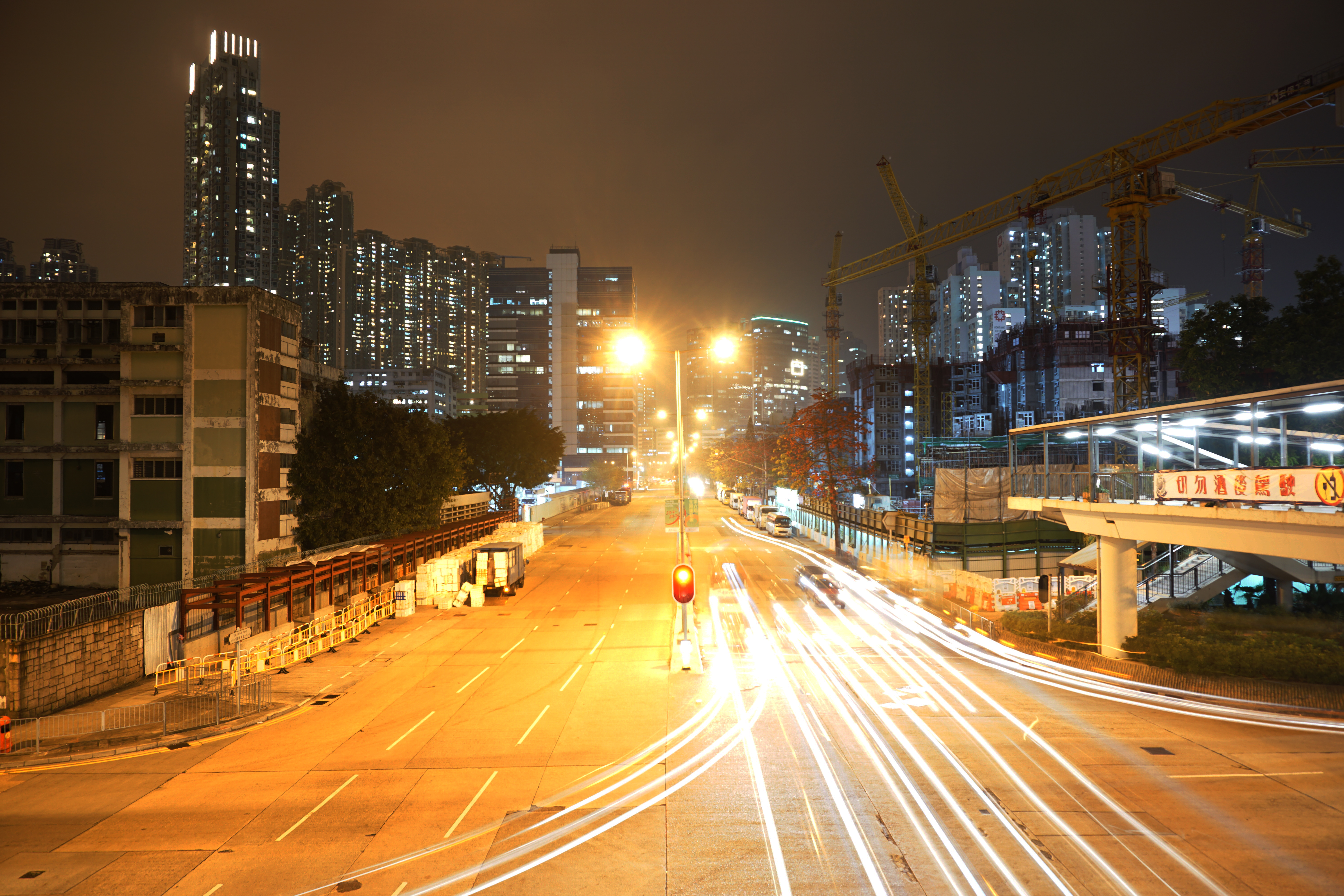 Lai Chi Kok Road in Cheung Sha Wan, Hong Kong.